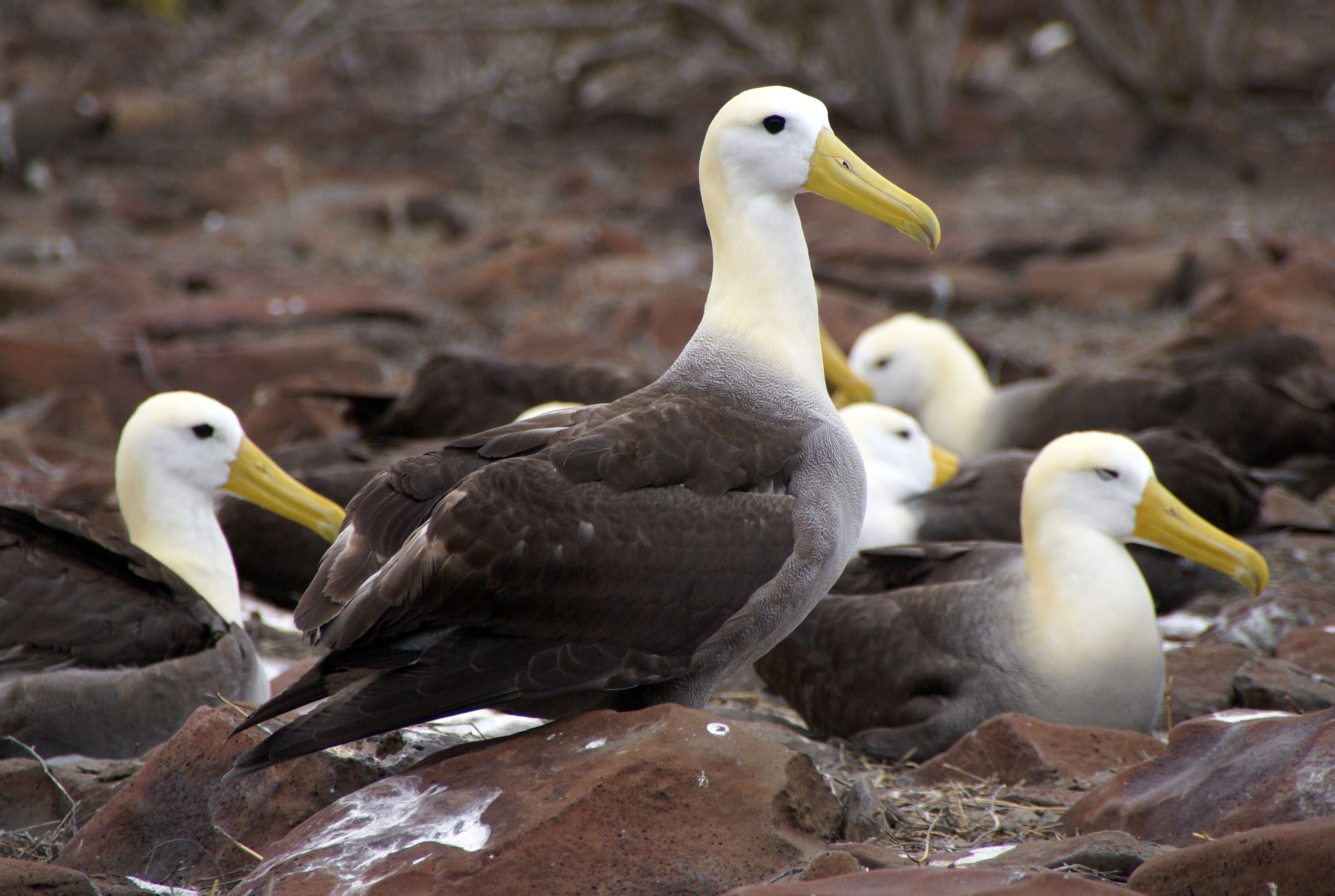 Waved Albatross (Phoebastria irrorata). Several waved albatrosses Punta Suarez, Espanola, Galapagos Islands.